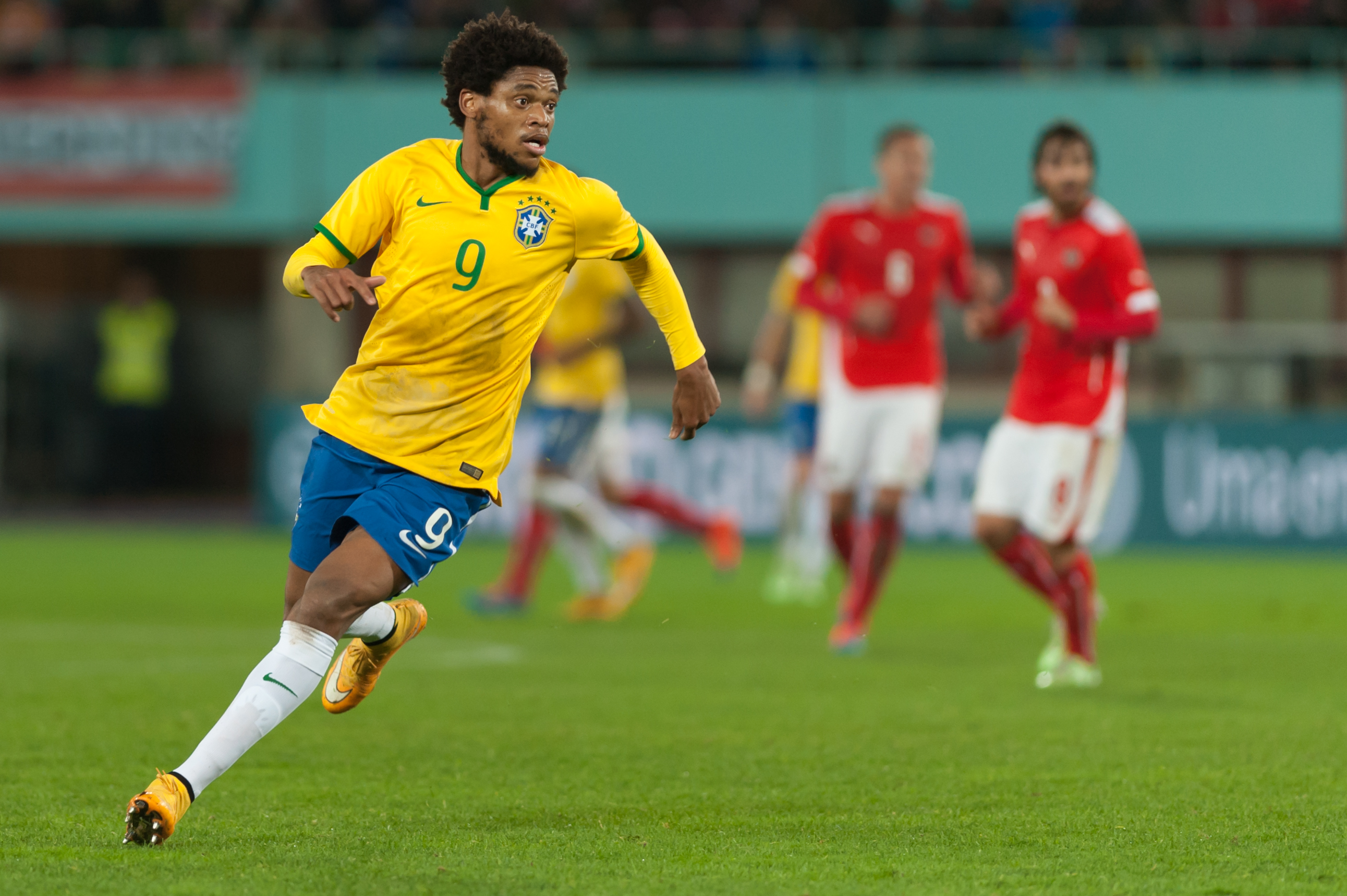 International Friendly Austria - Brazil November 18, 2014: Luiz Adriano